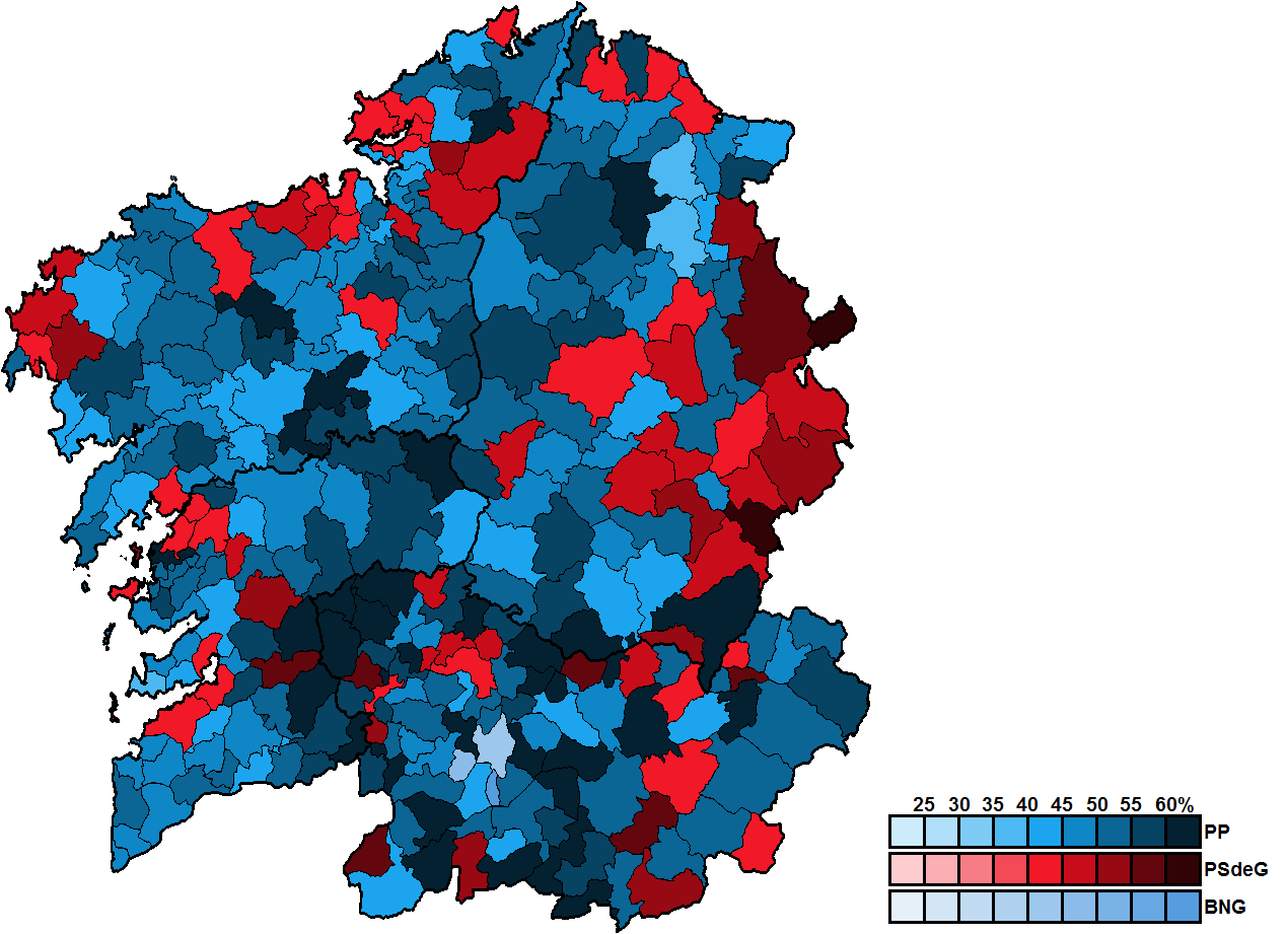 Most-voted party in Galicia municipalities, showing vote share obtained, in the Spanish general election, 2008.